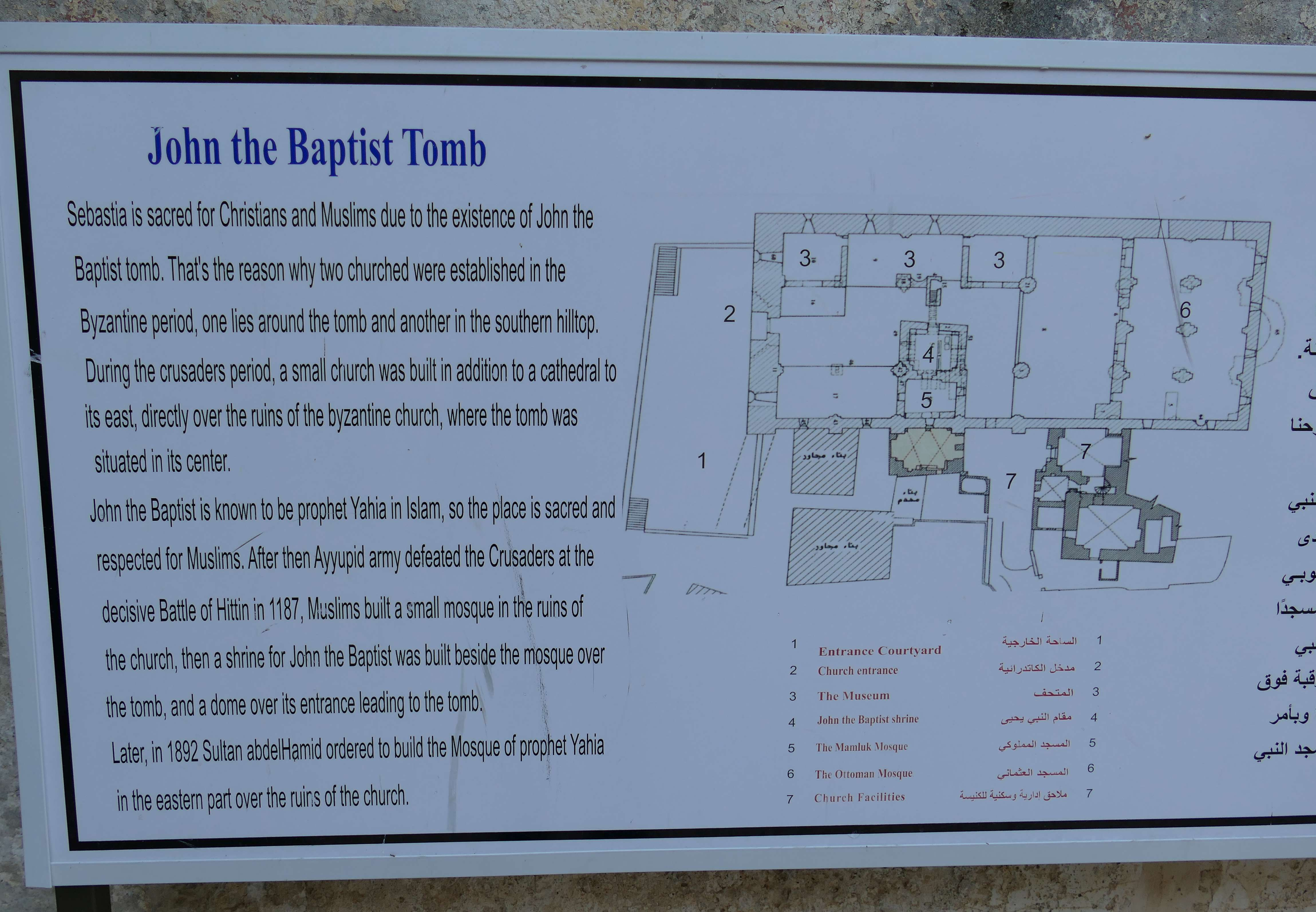 Nabi Yahya mosque (former crusader church) in Sebastia, West Bank.